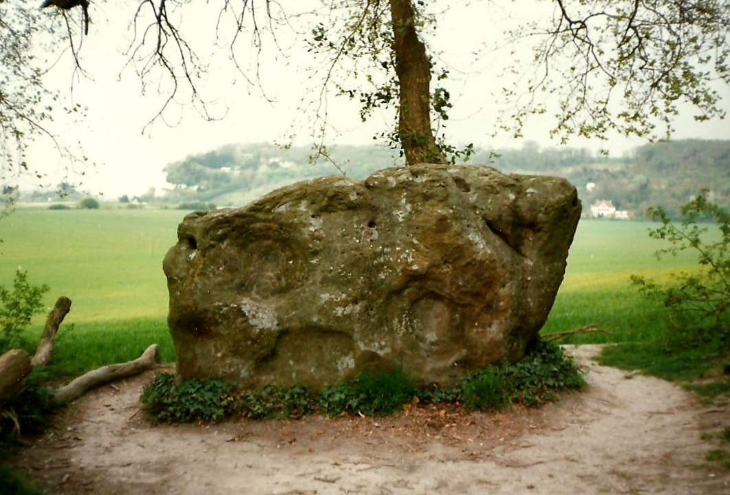 White Horse Stone, Pilgrims Way